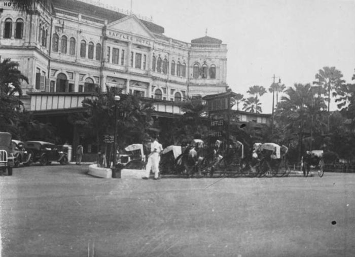 Entrance of the Raffles Hotel on Beach Road, Singapore. (The original caption in Dutch, which reads "Photograph. Entrance of the Raffles Hotel, Medan", is inaccurate.)